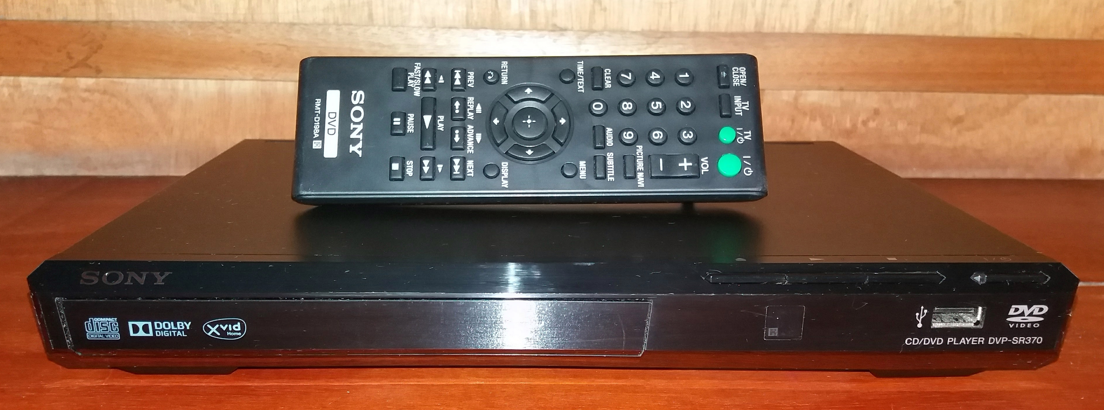 Sony DVP-SR370 NTSC system support and USB play